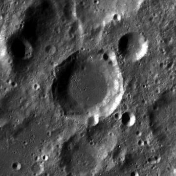 Pogson lunar crater - LROC image.